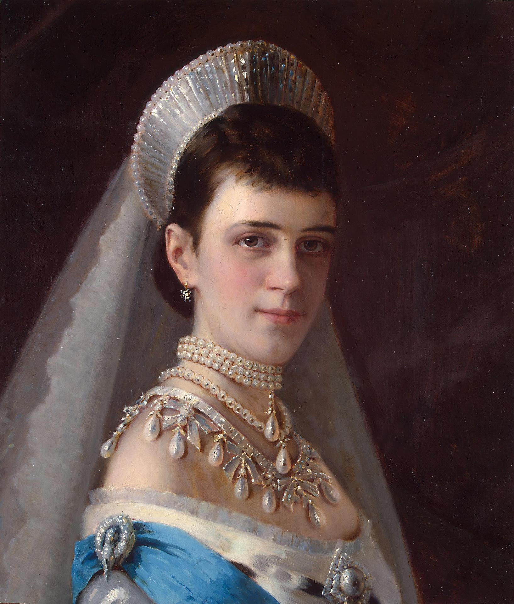 Portrait of Empress Maria Fiodorovna in a Head-Dress Decorated with Pearls